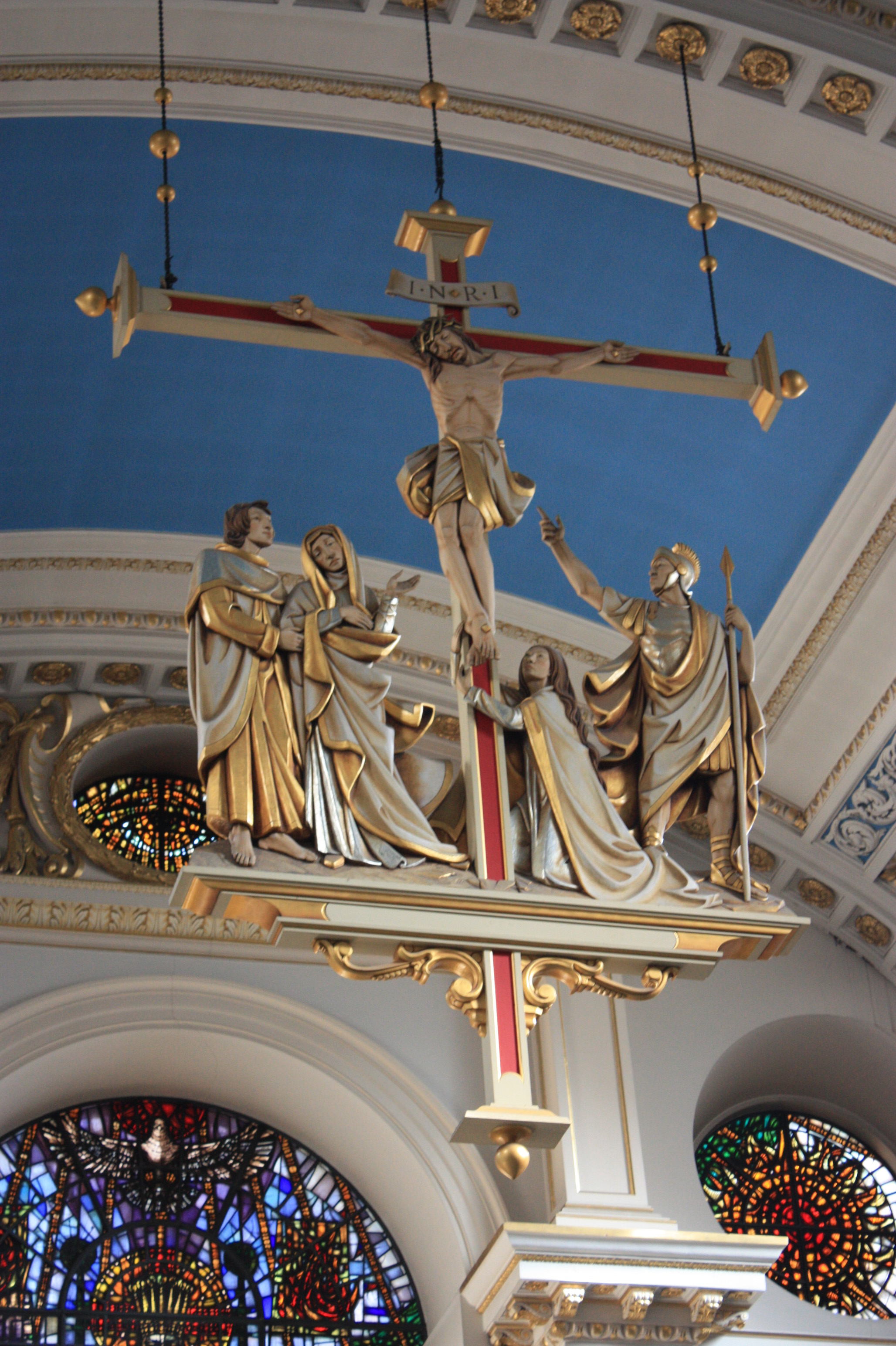 The elaborate pendant cross, St Mary le Bow